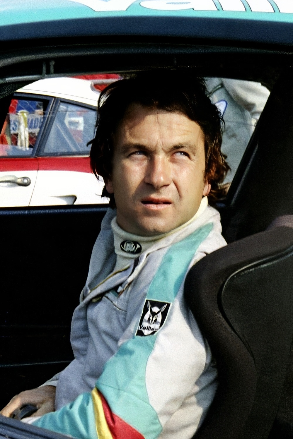 The late French racing driver Bob Wollek pictured in the summer of 1976 at the Circuit Zolder in Belgium.